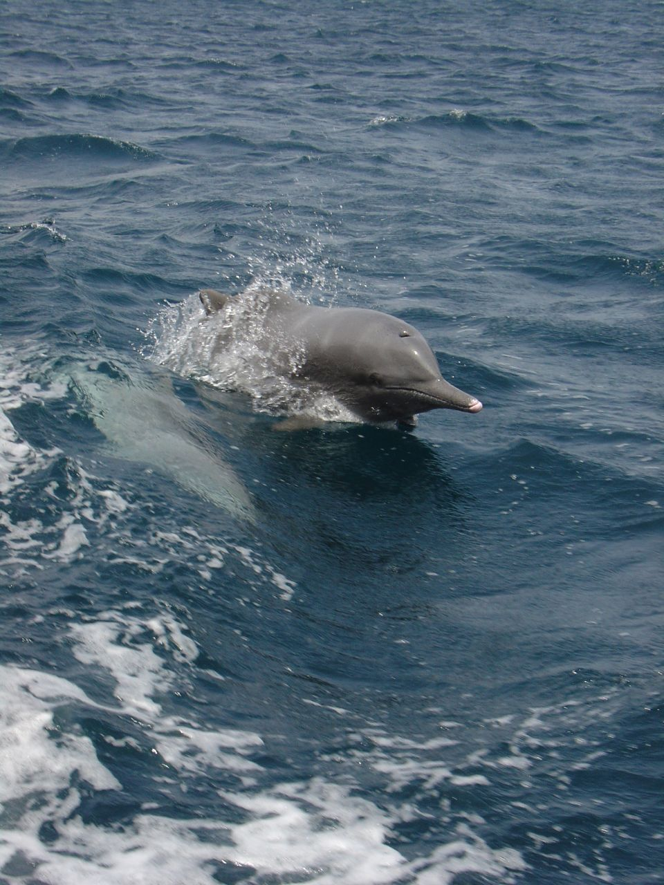 Dolphins following alongside the Dhow Musandam, Oman)